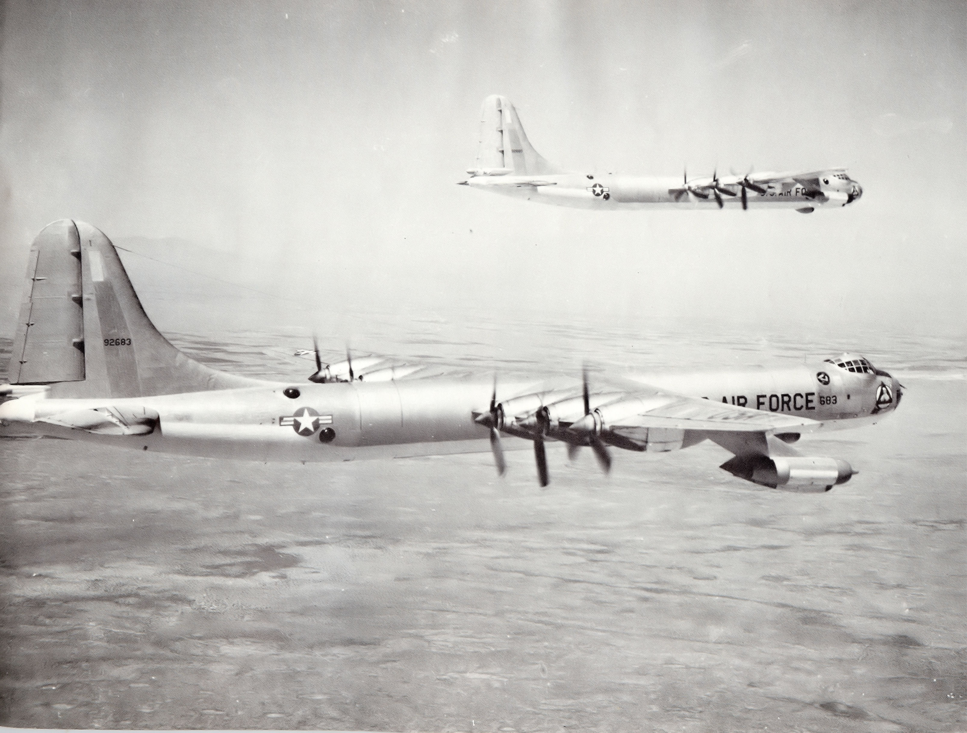 6th Bombardment Wing Convair B-36F-5-CF Peacemakers 49-2683 and 49-2680